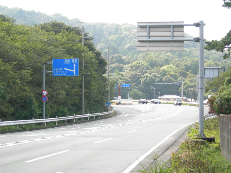 Mie prefectural route No.32, between Ise city and Shima city in Japan.